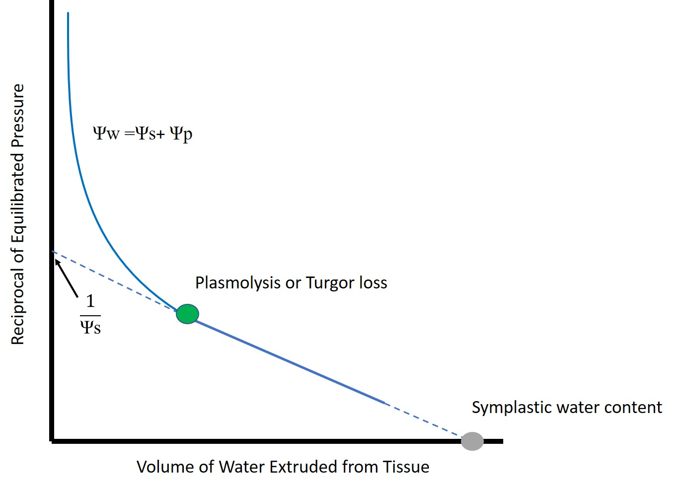 This is a simplified example of a pressure-volume curve on leaf tissue. The inflection point represents the loss of turgor or when the hydrostatic pressure will equal zero. The line that follows this inflection point only represents the solute potential, and if this line is extrapolated back to the y-axis the solute potential at full turgor can be approximated.